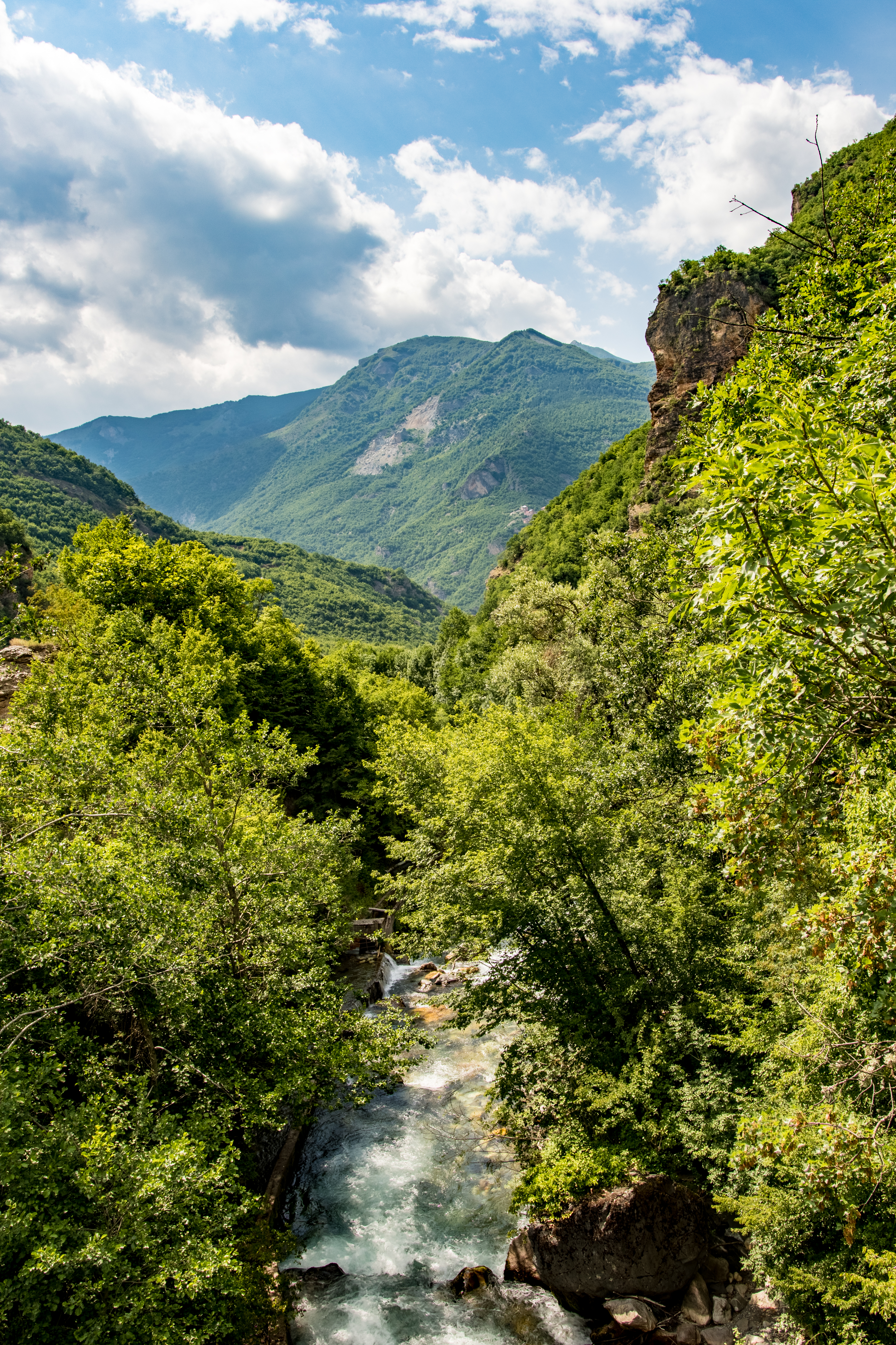 View of the Rosoki River